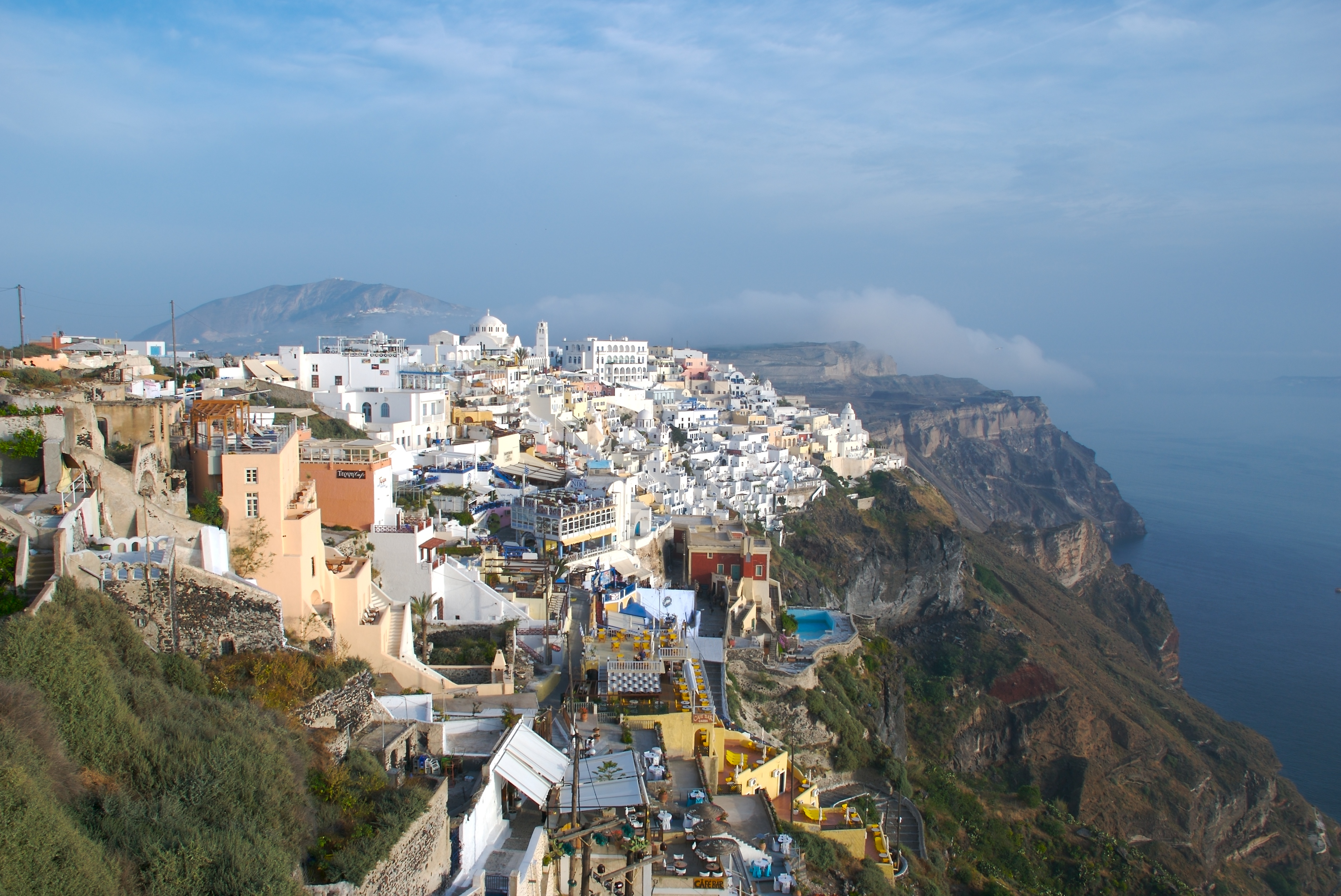 Photograph of Fira at Santorini Island, Greece taken from the north side.